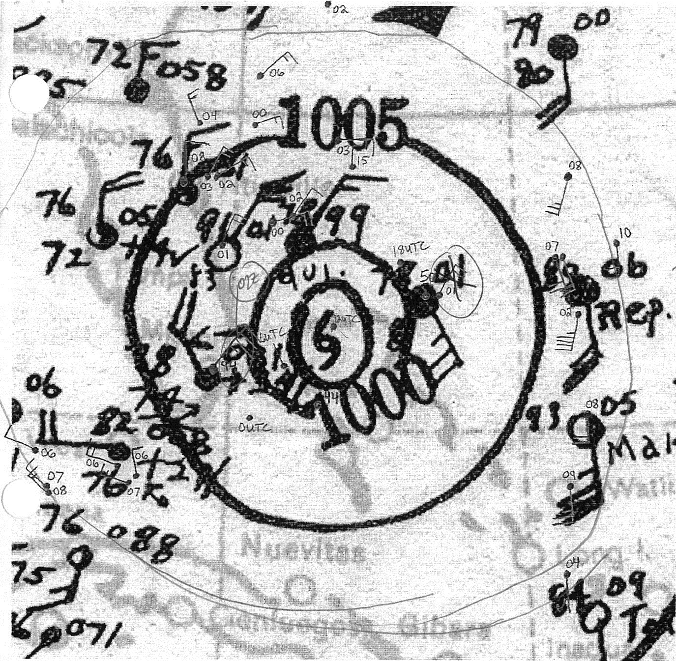 Surface weather analysis of the 1935 Cuba hurricane as a Category 4 storm off the eastern coast of Florida on September 29, 1935.